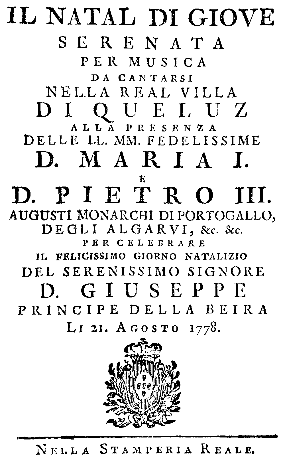 João Cordeiro da Silva - Il natal di Giove - titlepage of the libretto - Lissabon 1778